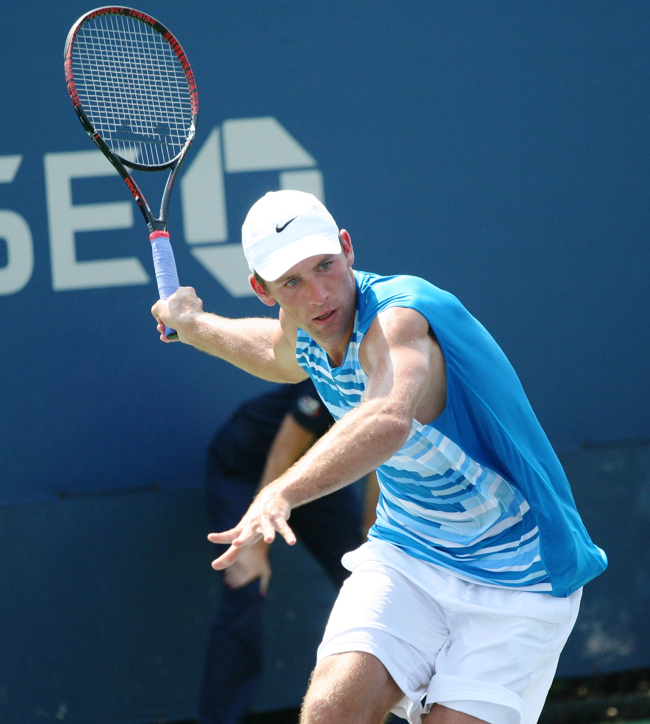 Łukasz Kubot, a Polish tennis player, at the 2010 US Open.